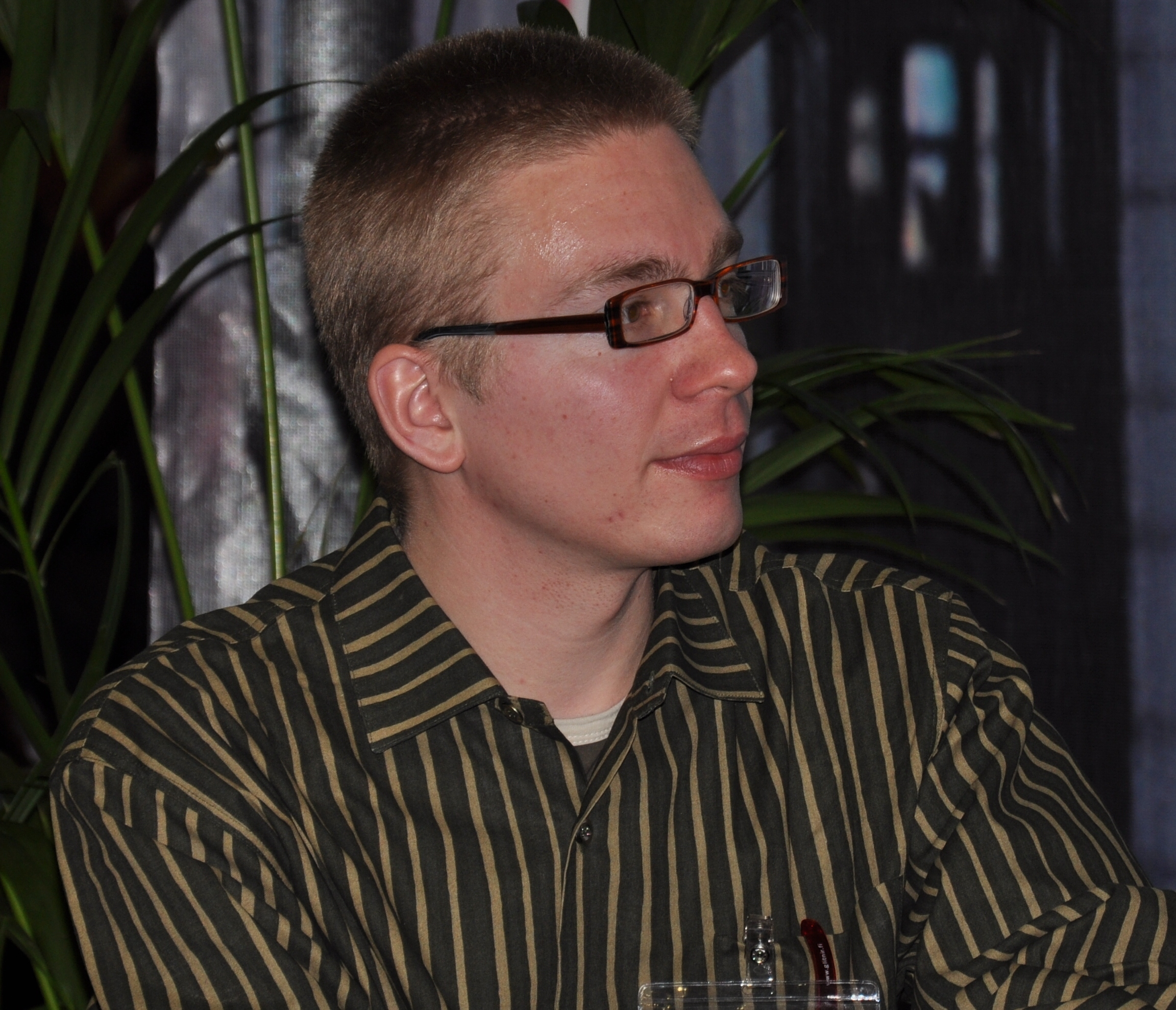 Finnish writer and journalist Karo Hämäläinen at the Tampere Book Fair 2009.